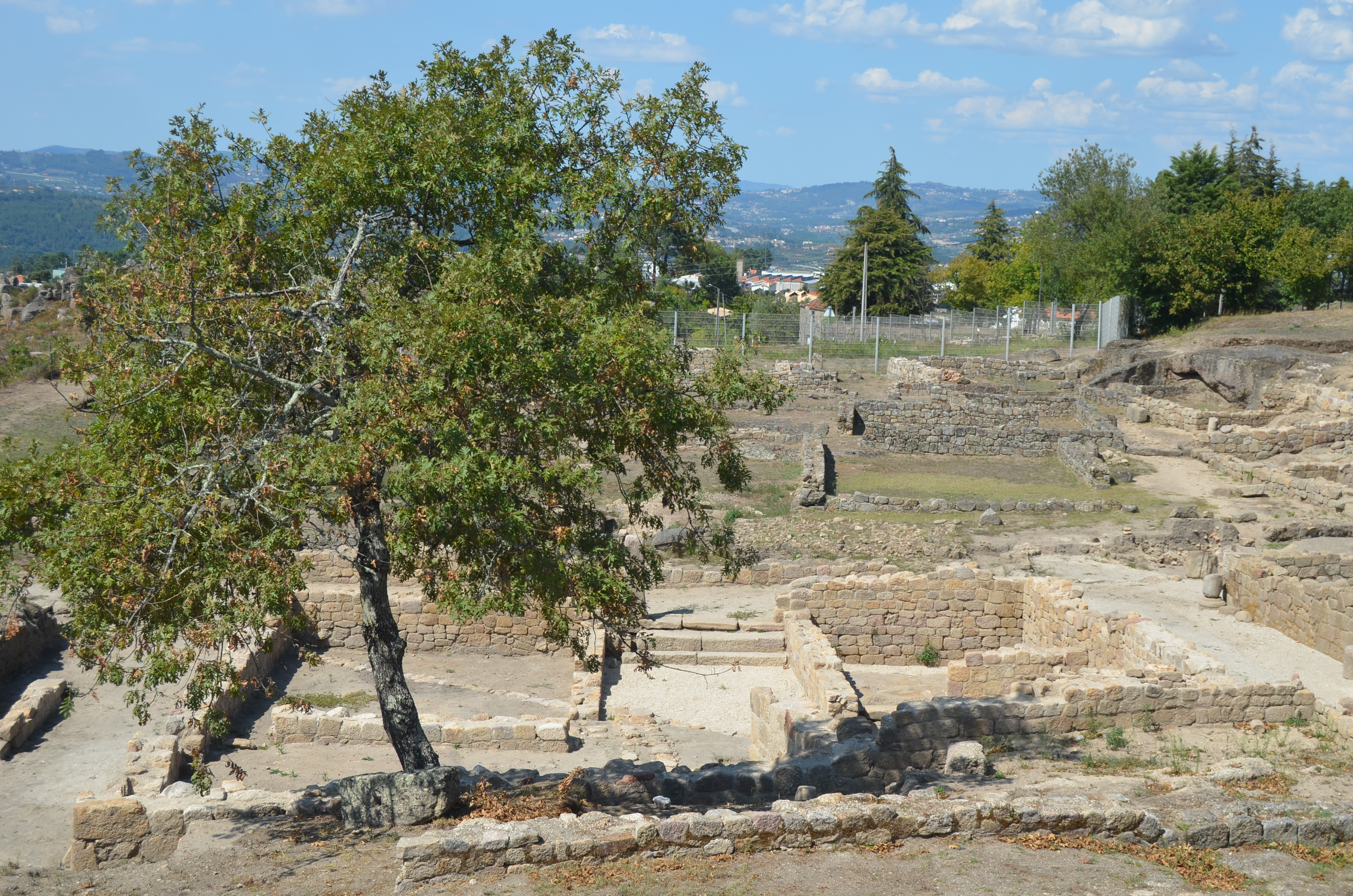 Ruins of the Roman city of Tongobriga